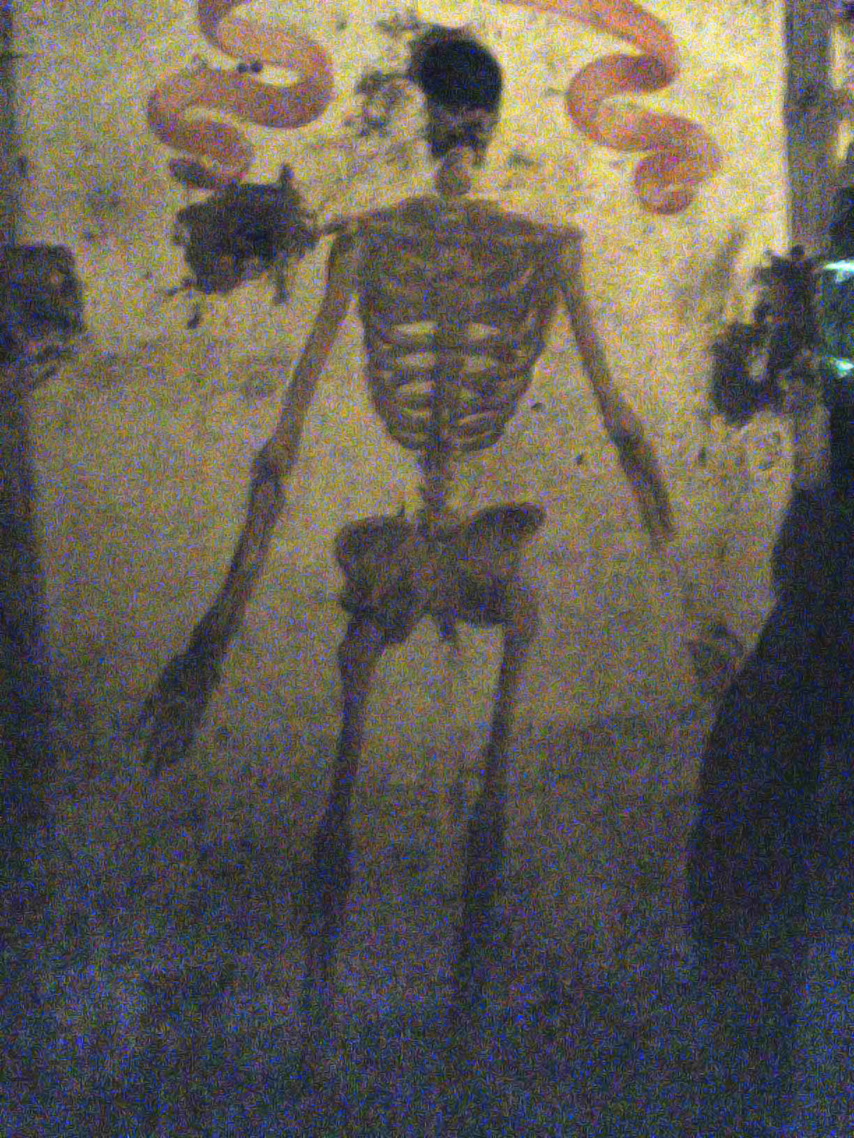 San Gaudioso ambulatorium. Fresco that closes niche with dominican monk's body